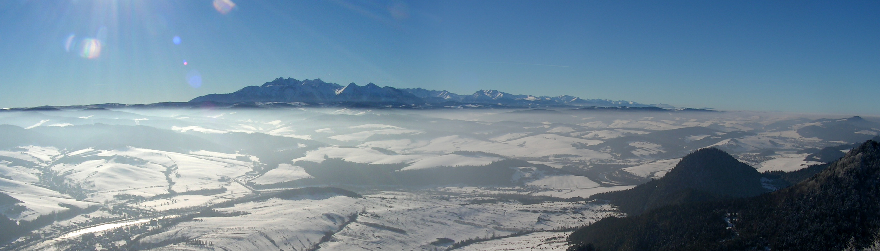 A view of Tatra Mountains from Trzy Korony (Three Crowns) in Pieniny.